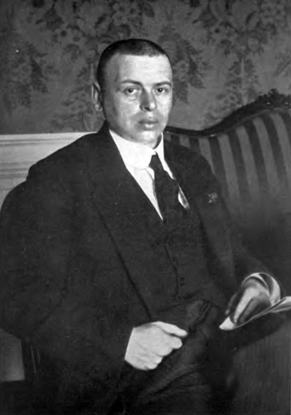 Hungarian communist politician and journalist Béla Kun